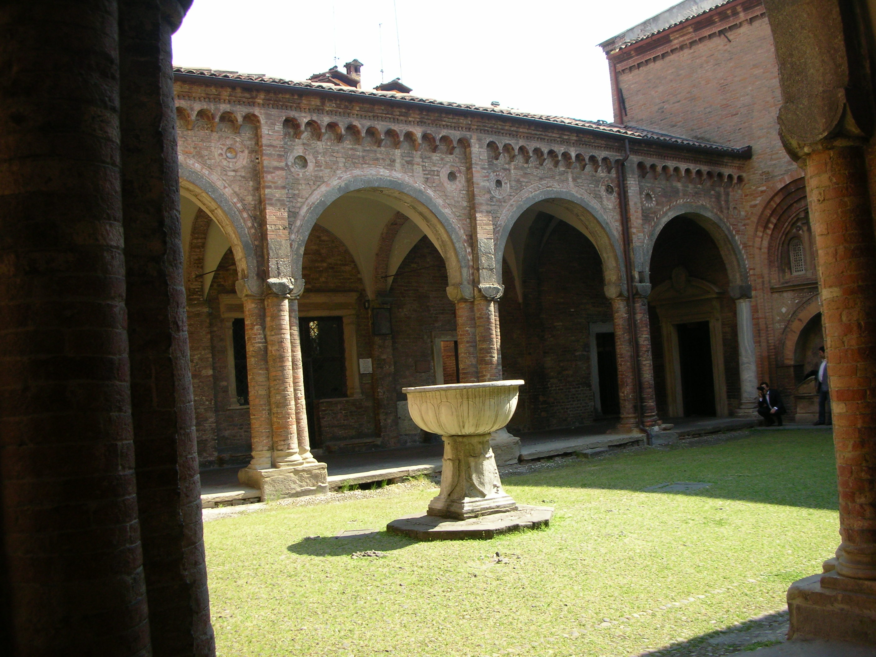 Buildings of Saint Stephen's Basilica in Bologna, Italy, also known as "The Seven Churches". In this picture, the so-called "Pilatus' basin", standing in the middle of the so-called "Pilatus' Courtyard". It is a Lombard sculpture dating from the 8th century, bearing the names of kings Liutprand and Ilprand, as well as of the bishop Barbatus.